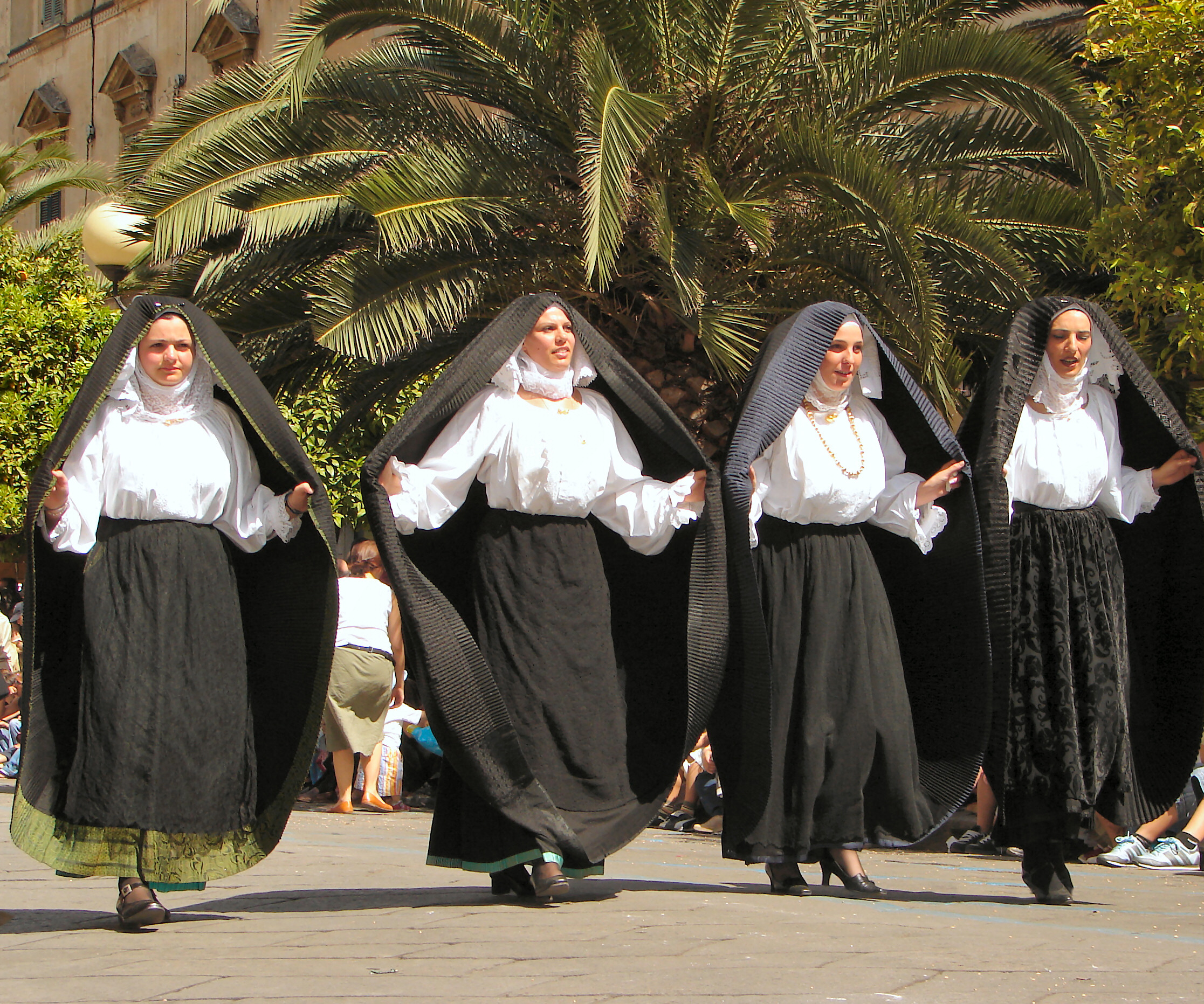 The last Sunday in May, people from all over Sardinia come to Sassari to parade in their local folk costumes, in the Cavalcata Sarda.